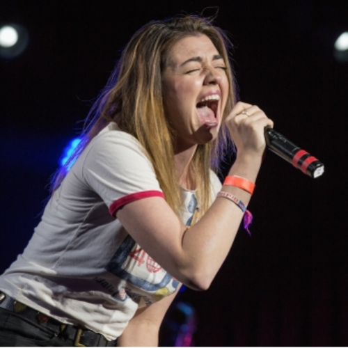 Barrett Wilbert Weed singing 'Machine Gun' in Nov. 2015